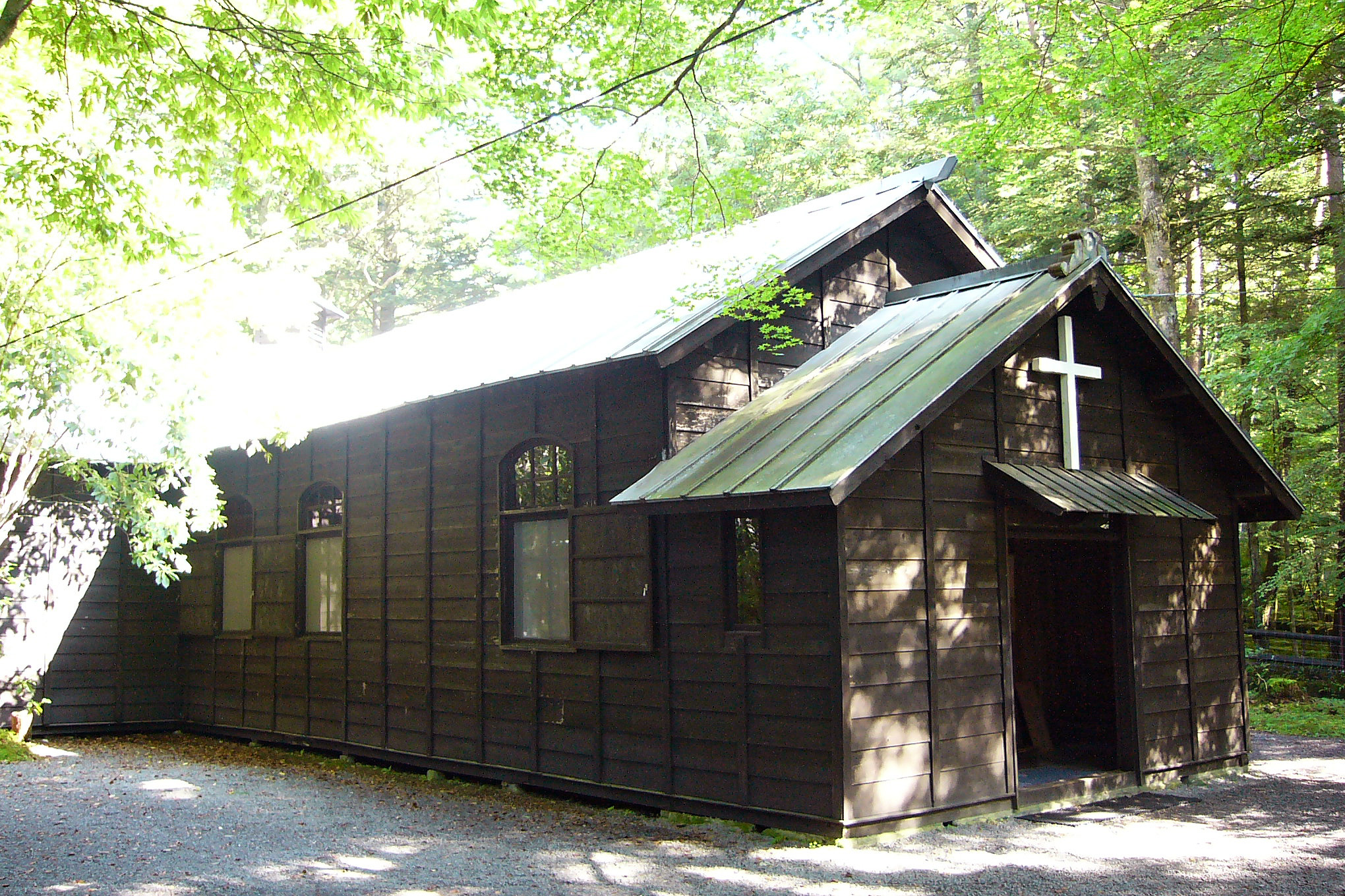 Shaw memorial chapel in Karuizawa, Nagano prefecture, Japan